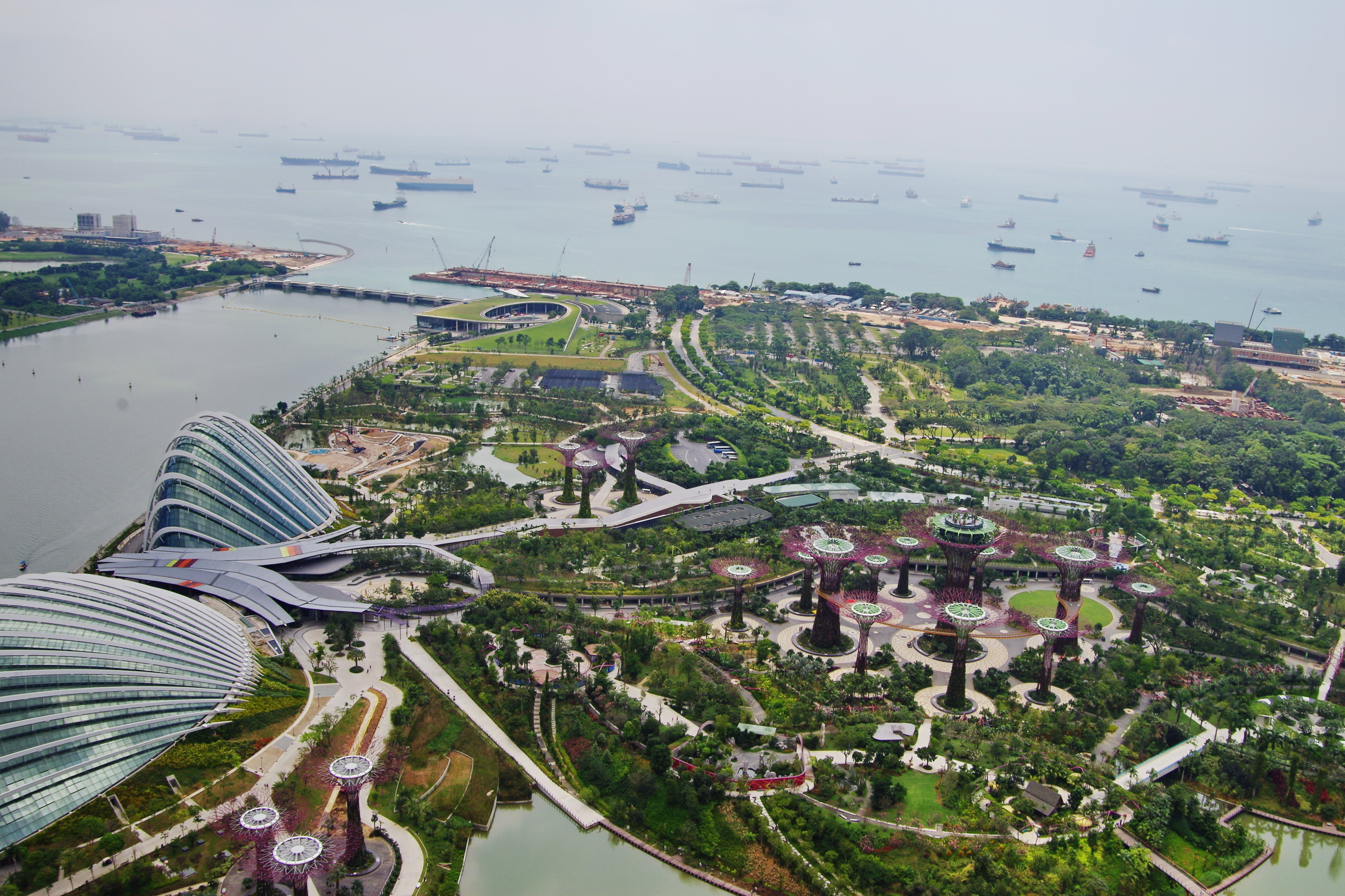 Gardens by the Bay South viewed from Sands Sky Park, Marina Bay Sands Hotel.